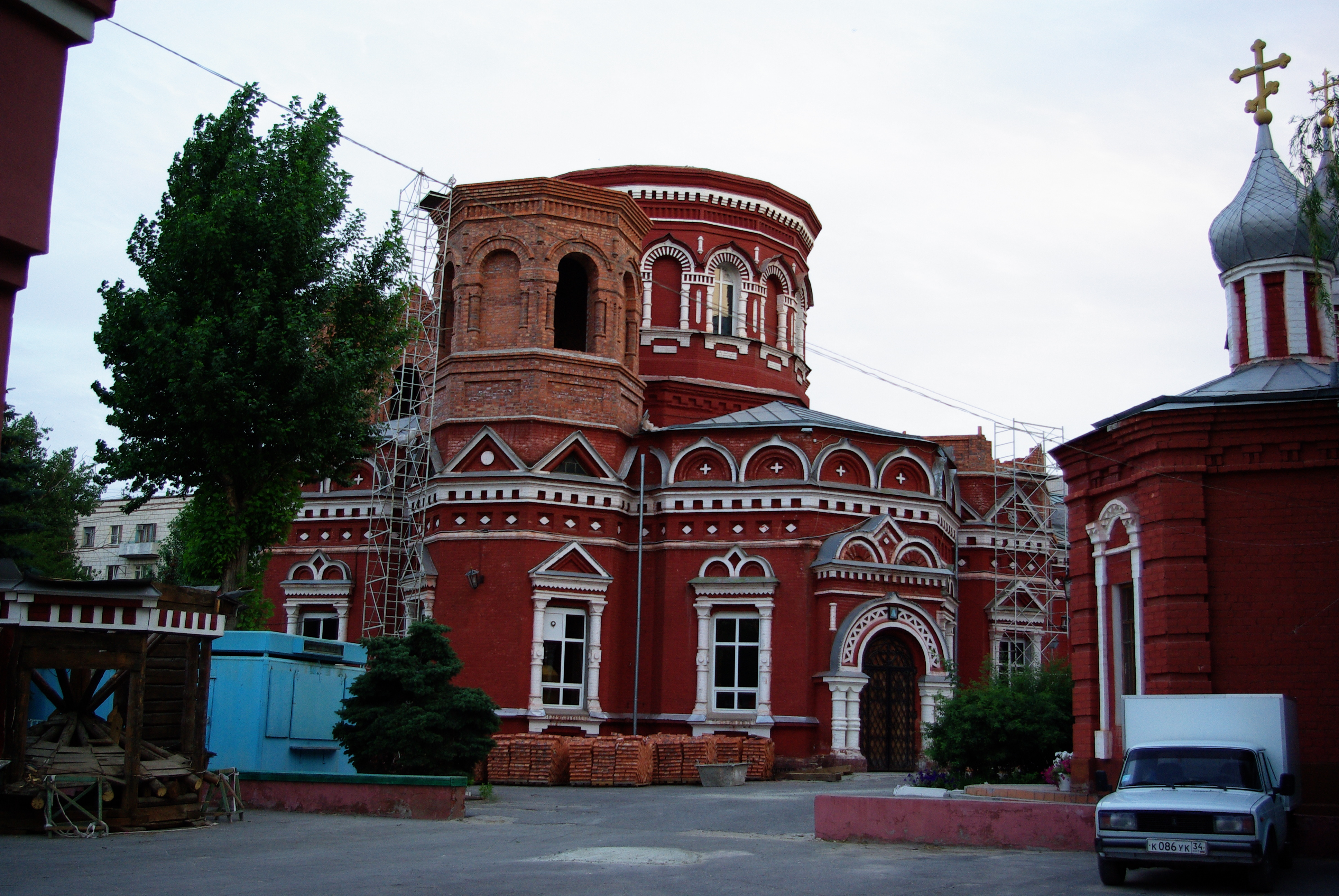 Kazan Cathedral (Kazanskiy Kafedralniy Sobor) in Volgograd, Russia